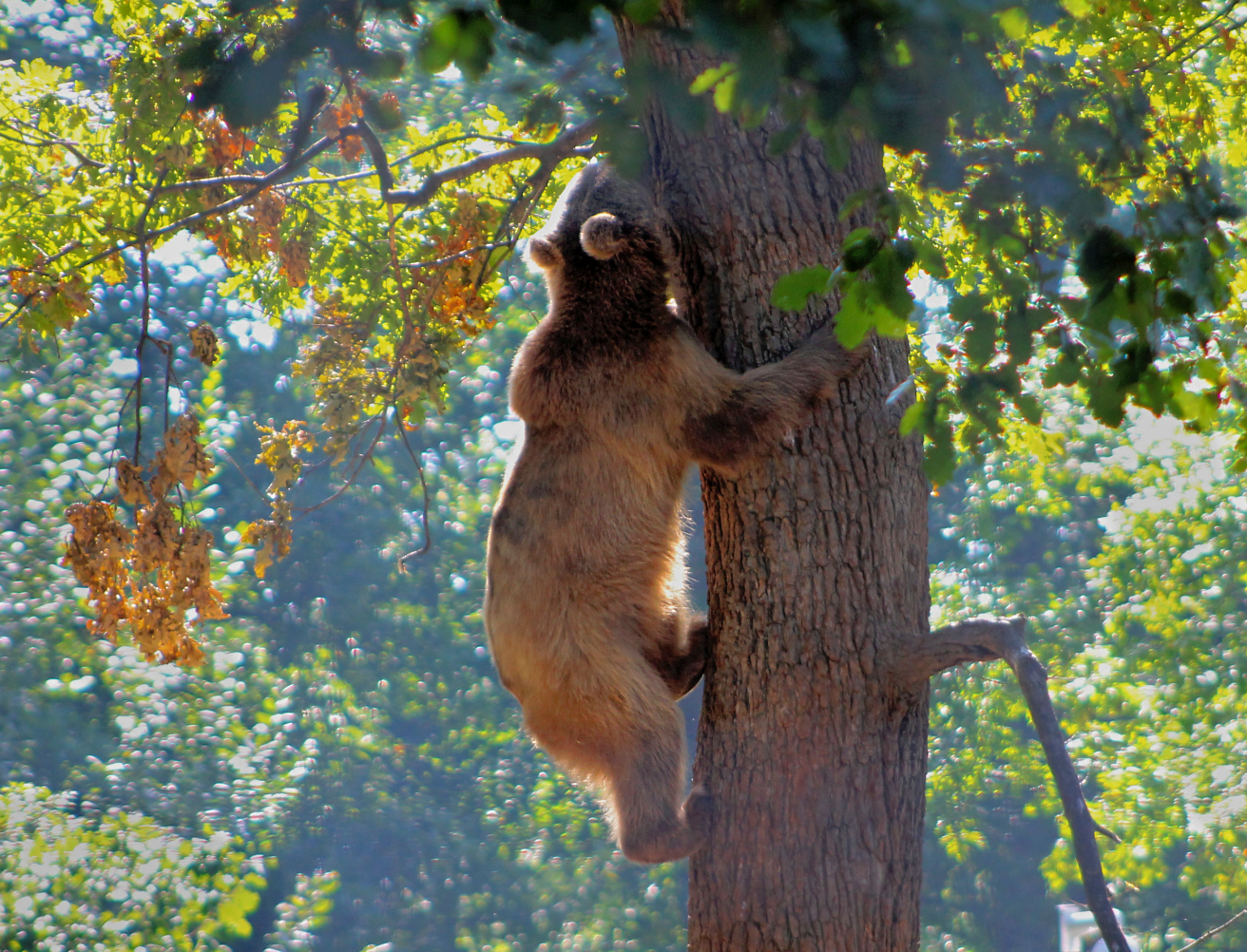 Bear climbing a tree in Libearty Bear Sanctuary